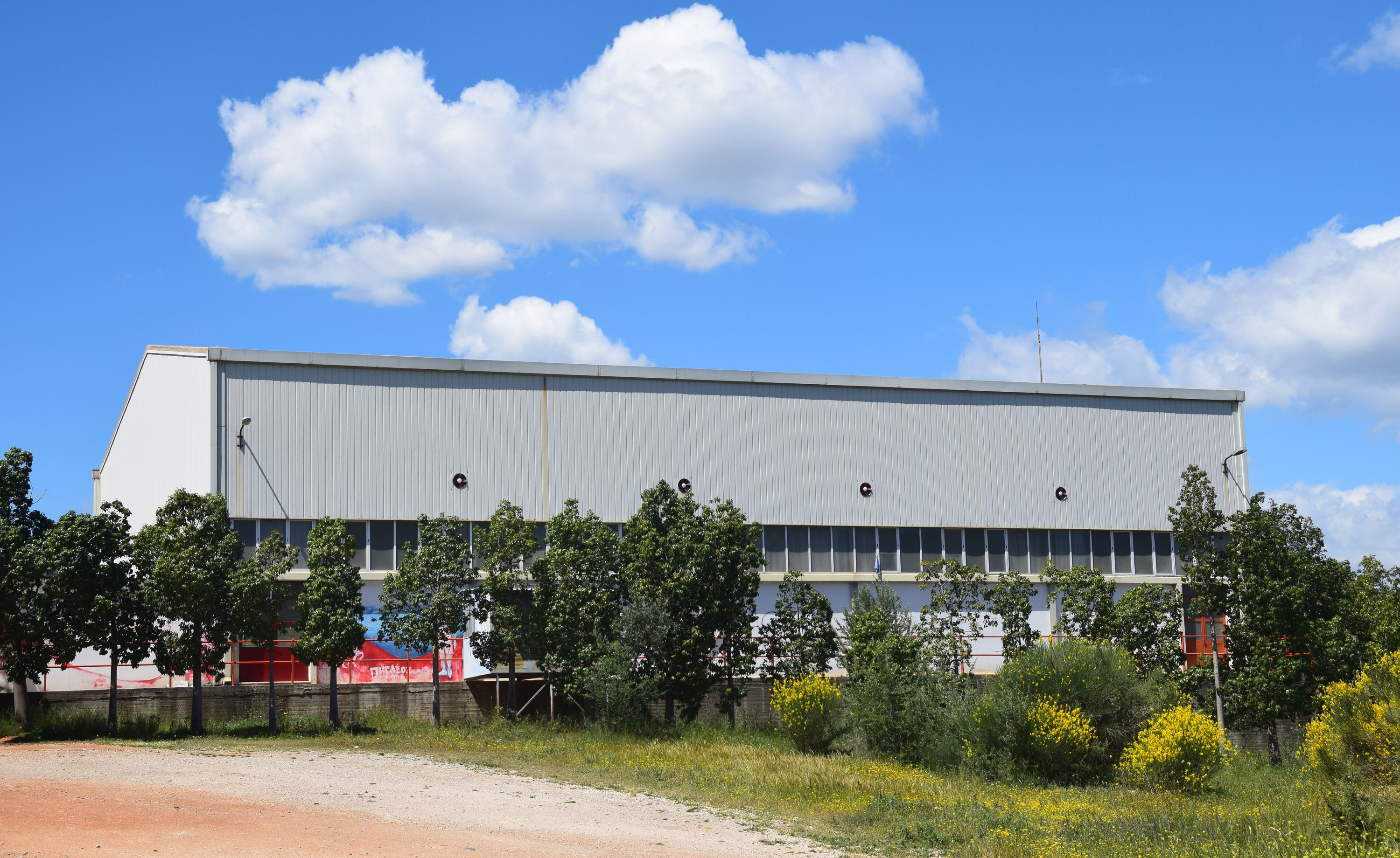 Indoor hall of Astros in Arcadia, Greece.